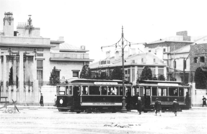 Train, consisting from MB and PD cars, at Bolshaya Dvoryanskaya Street in 1908.